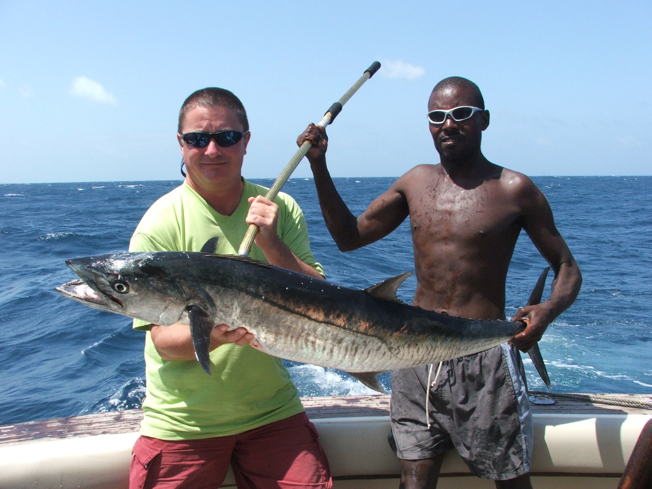 Scomberomorus commerson